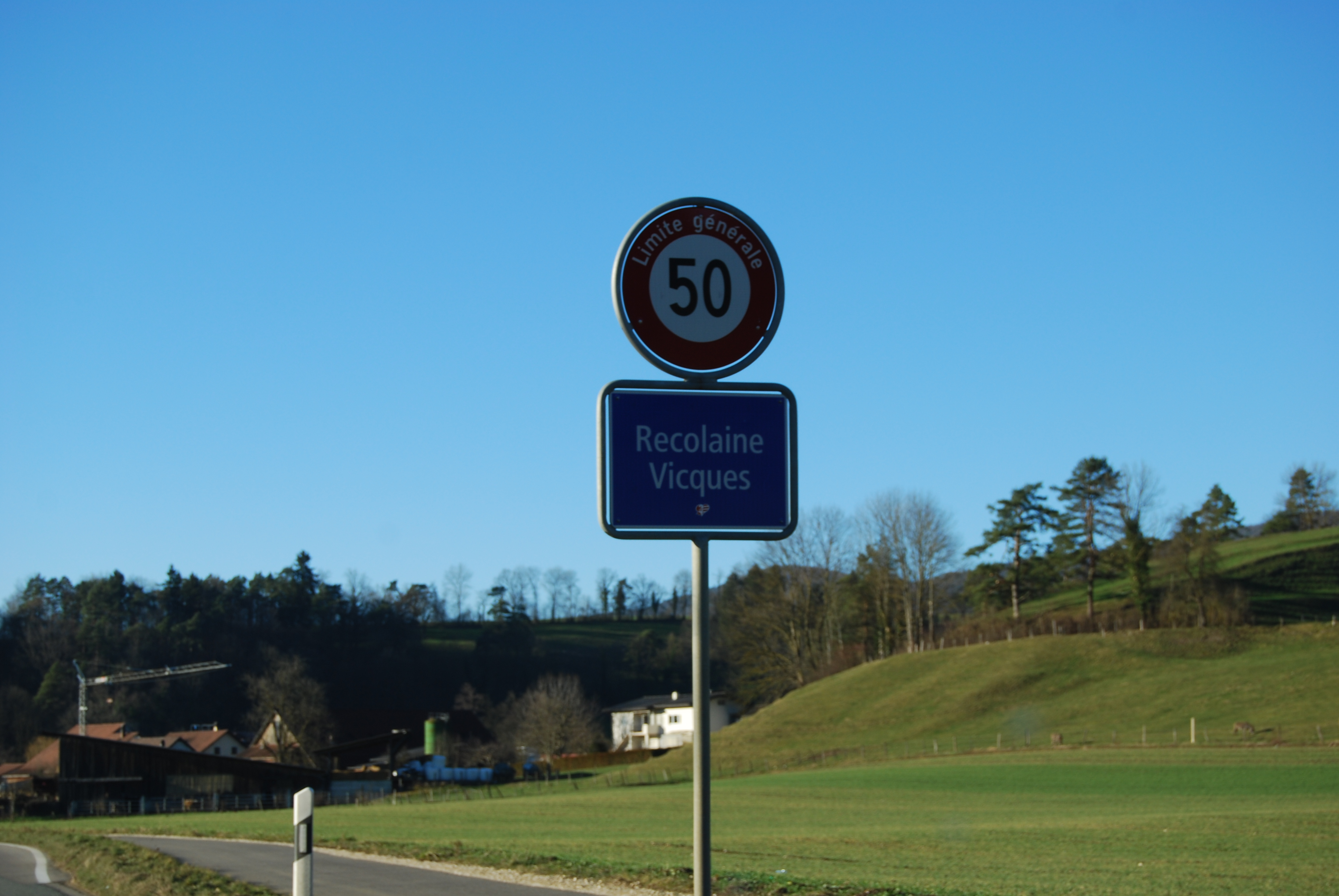 Village entry of Recolaine, municipality of Vicques, canton of Jura, Switzerland